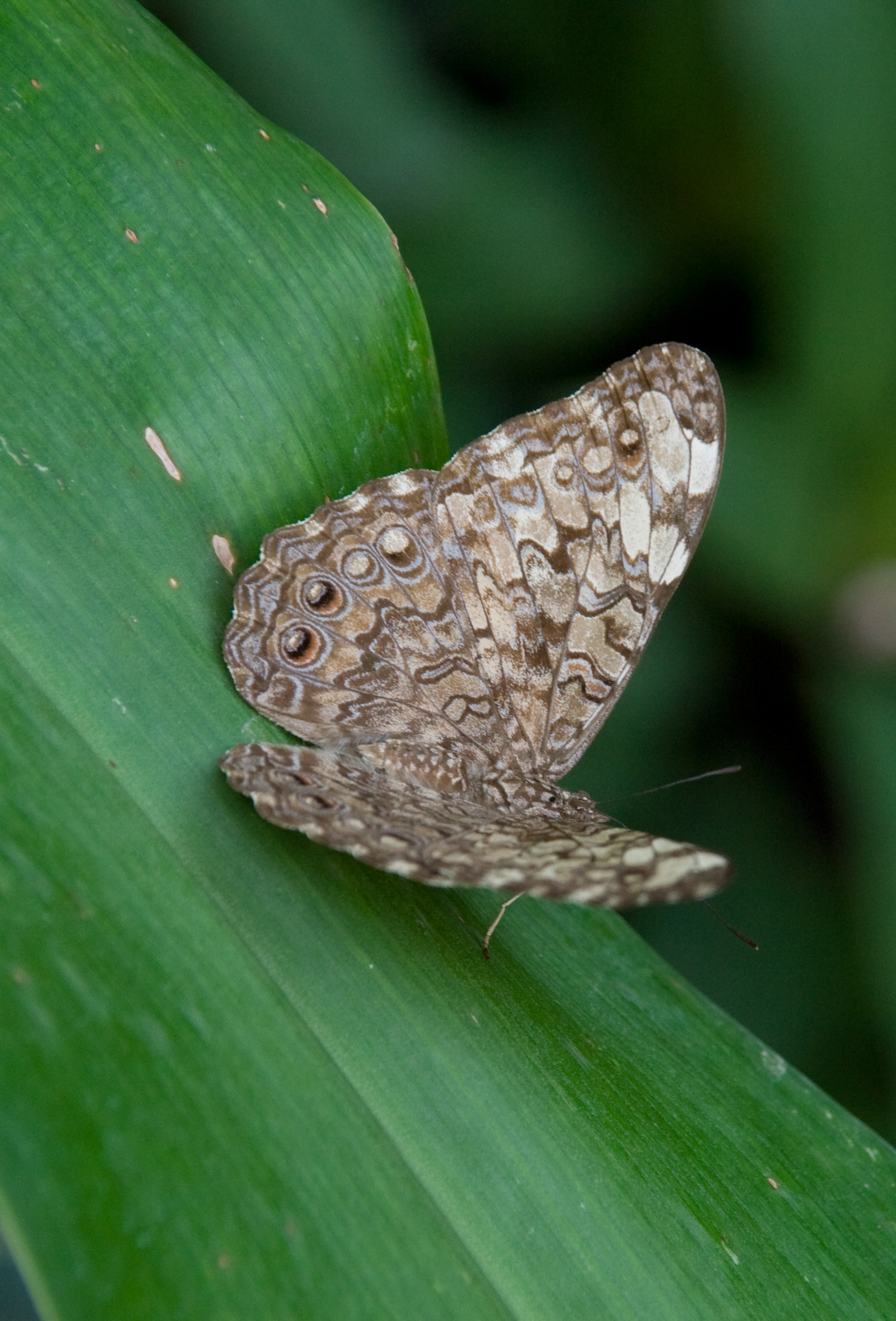 Hamadryas velutina